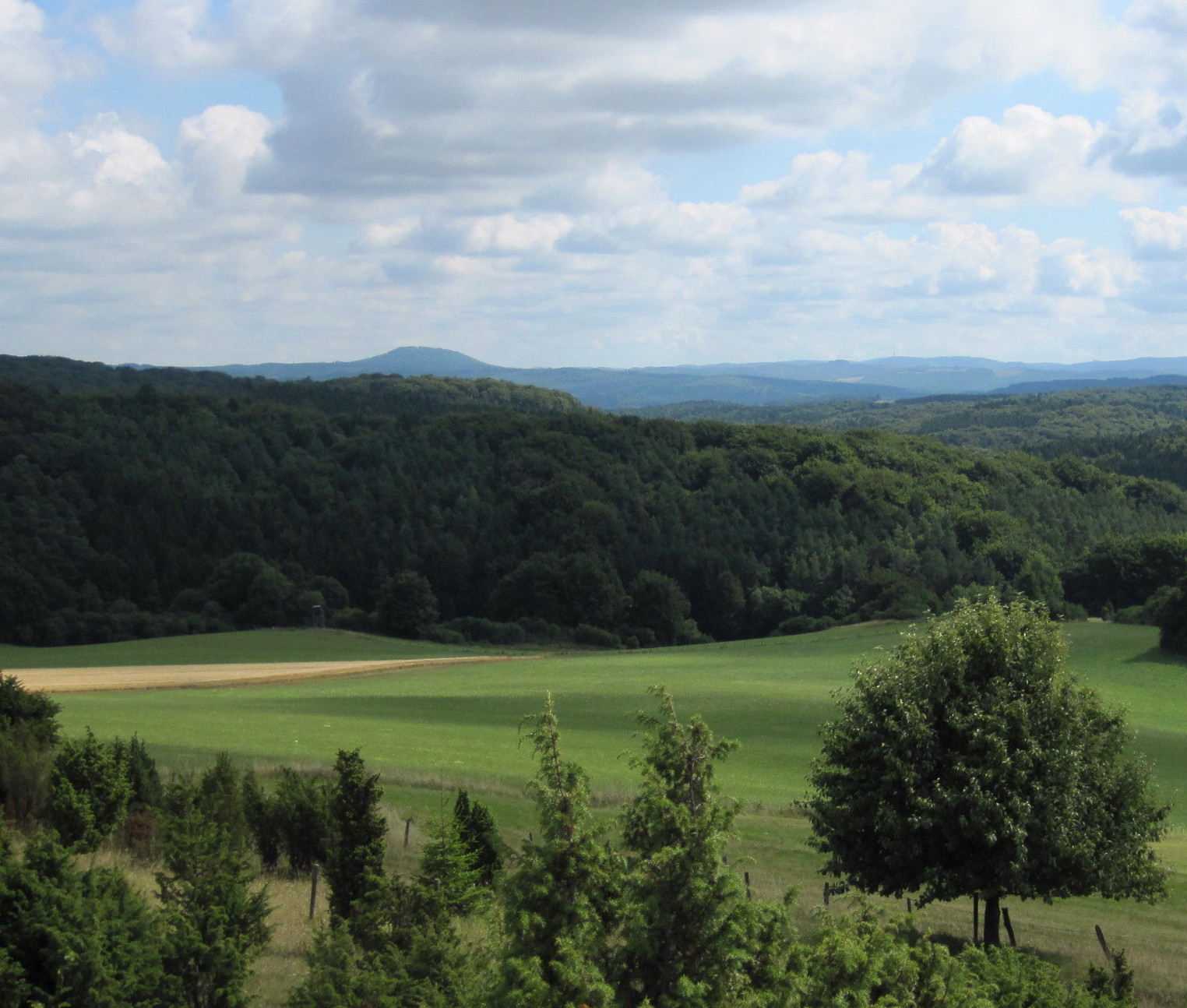 Aremberg (mountain) as seen from Kalvarienberg (Alendorf)